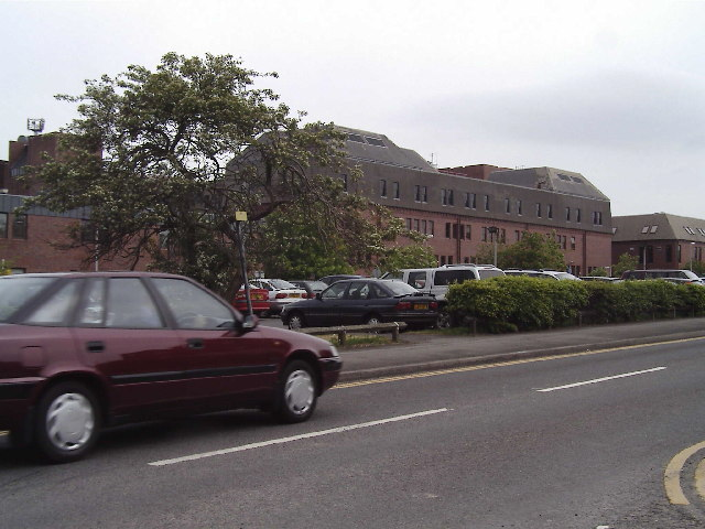 Hospital. Rear of Scunthorpe Hospital.